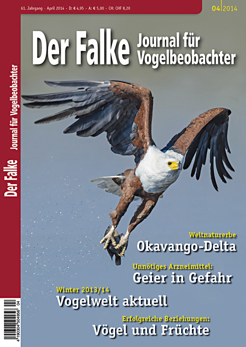 Front cover of the German ornithological journal "Der Falke", issue no. 4, April 2014.